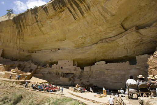 Mrs. Laura Bush talks to a crowd, Thursday, May 23, 2006, assembled in Long House cliff dwellings — during a celebration of the 100th anniversary of Mesa Verde and the Antiquities Act in Mesa Verde, Colorado. Mesa Verde National Park was the first national park established to protect America’s man-made treasures; and Long House is the second largest cliff dwelling in the park.